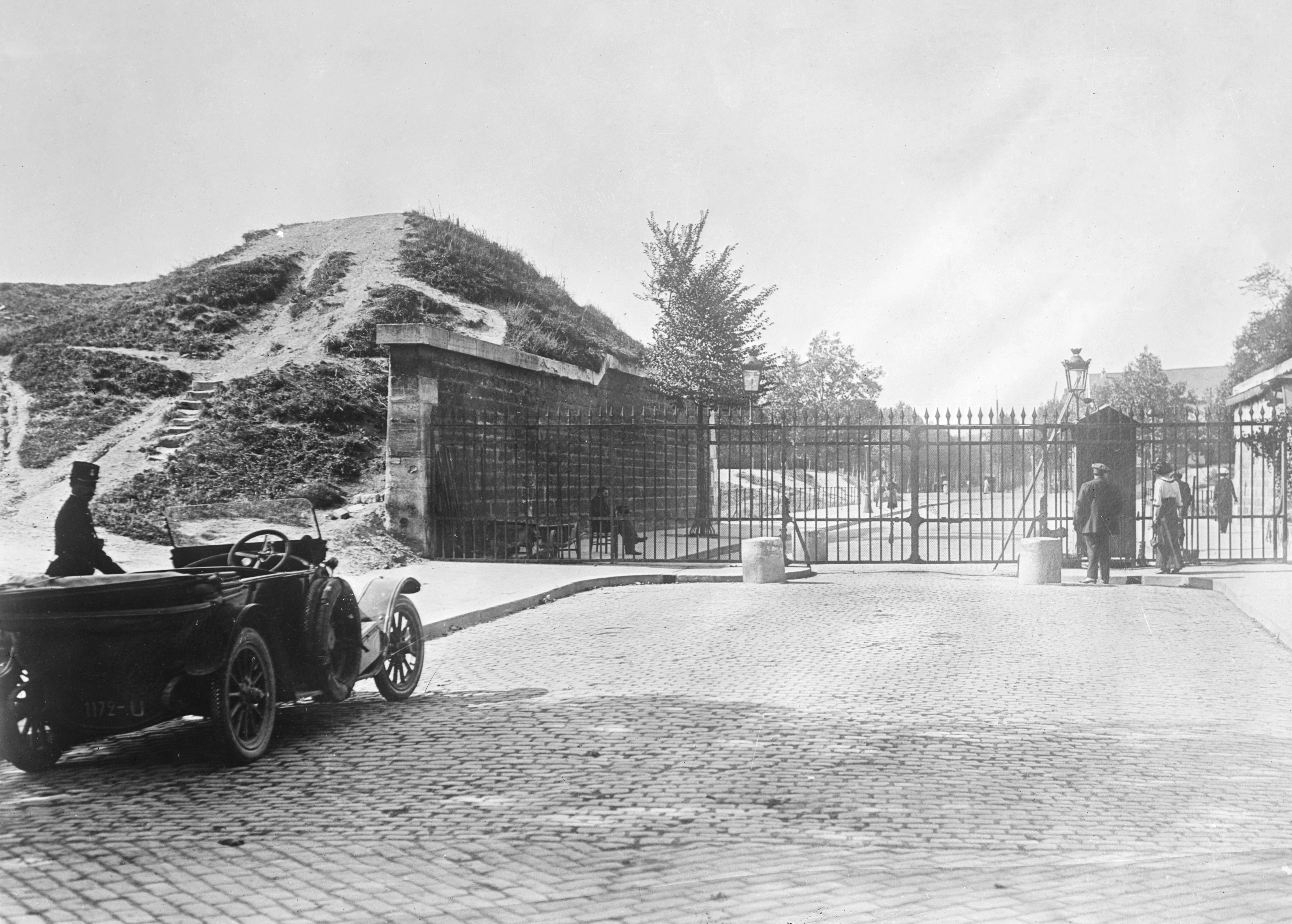 Paris, Porte de la Villette. Photograph shows a gate at the Porte de la Villette station of the Paris Métro during World War I.